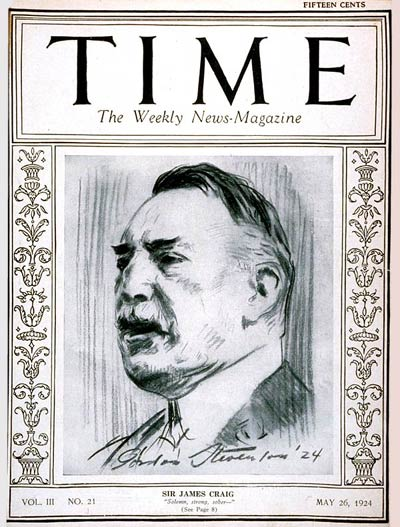 TIME Magazine Cover Featuring Sir James Craig (26 May 1924)